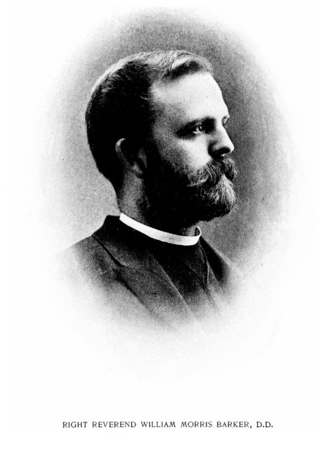 The Rt. Rev. William Morris Barker. Missionary Bishop of the Episcopal Church to Western Colorado, then as Bishop of the Episcopal Diocese of Olympia.